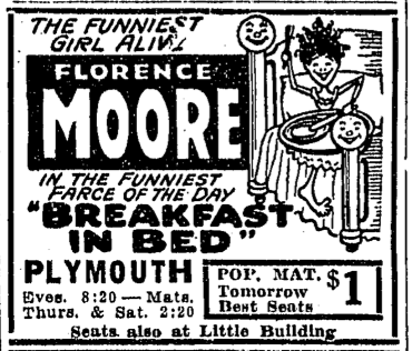 Advertisement for Plymouth Theatre, Boston, Massachusetts, USA